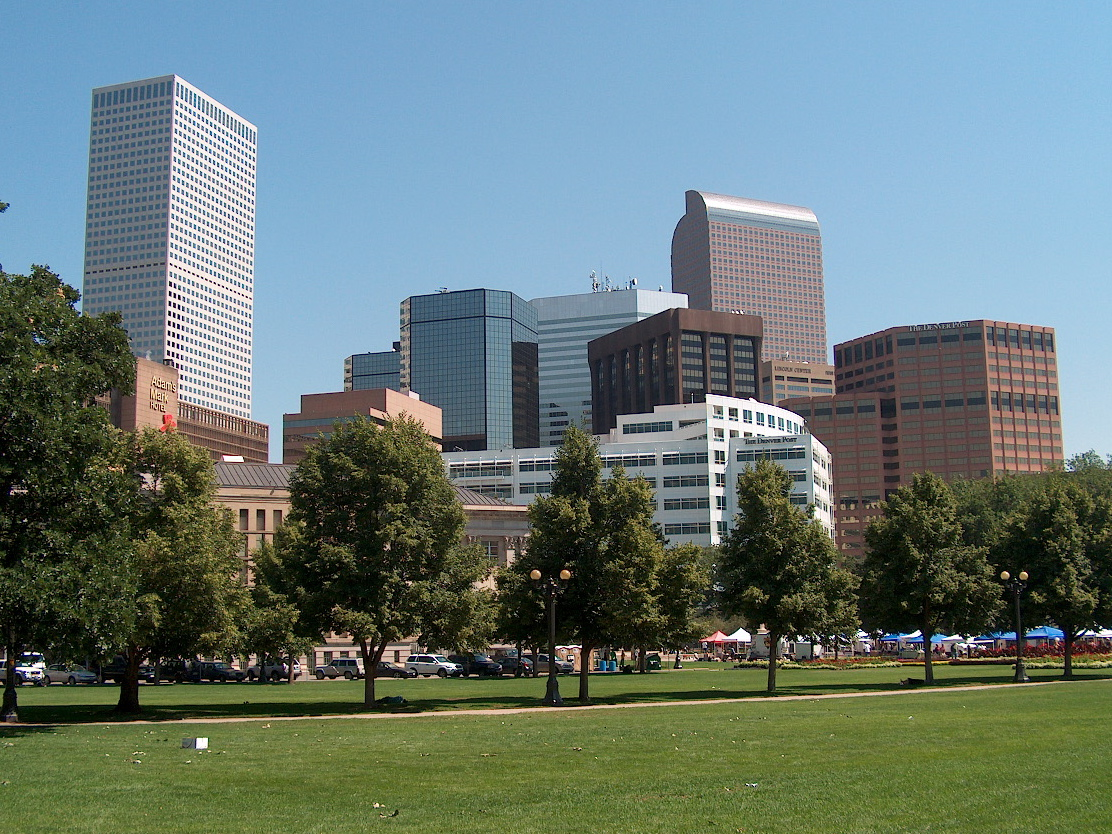 Downtown Denver from Civic Center Park. Photo by Ken Gallager, July 26, 2006.